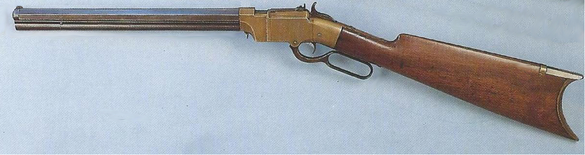 Volcanic Rifle